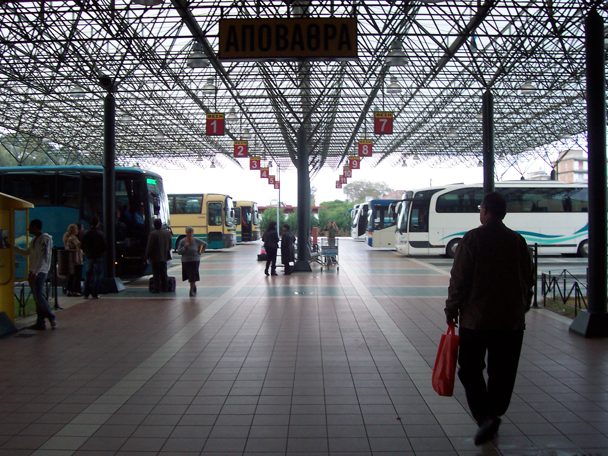 Bus terminal in Pyrgos, Ilia, Greece.